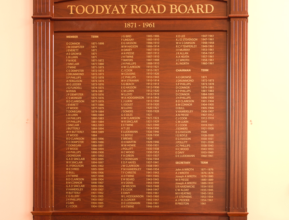 Newcastle Road Board honor board